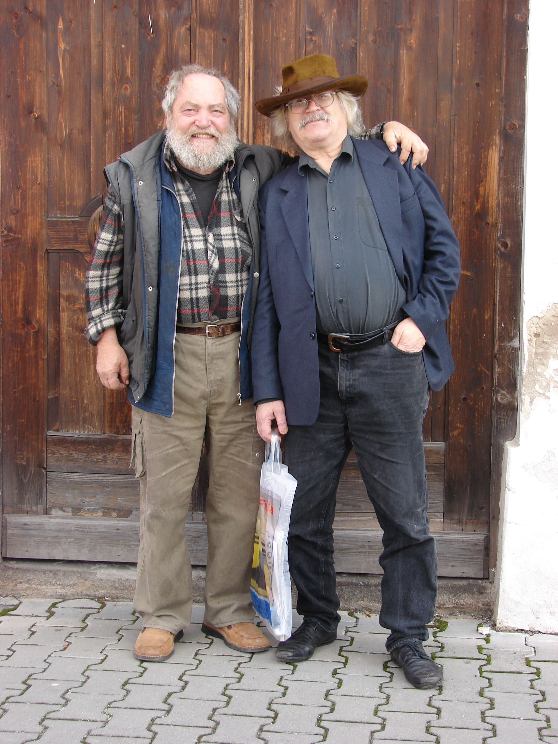 Herbert Kisza and Ivan Martin Jirous in front of The Bat Gallery in Kadaň (U netopýra)